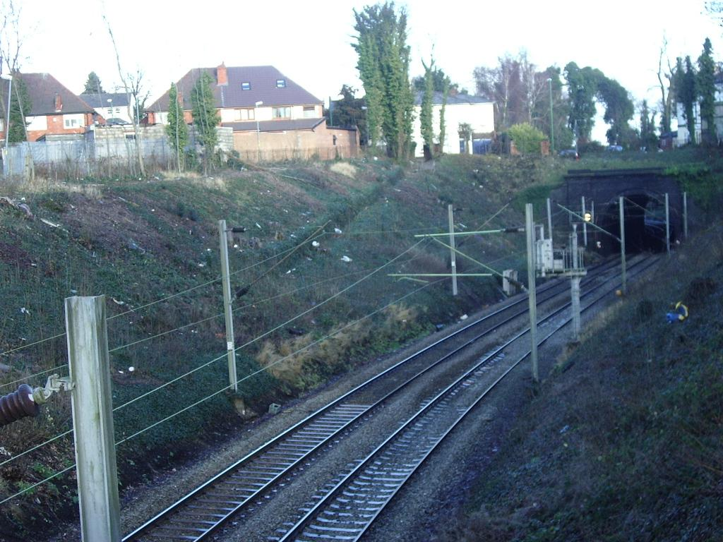 Handsworth Wood Station (site of) View from close to footbridge joining two parts of Handsworth Park, this photo shows clearly the line of the footpath that once led passengers down from Hamstead Road on left of the line. On right is the tunnel entrance that goes through to A4040 Wellington Road. for photo and further details.